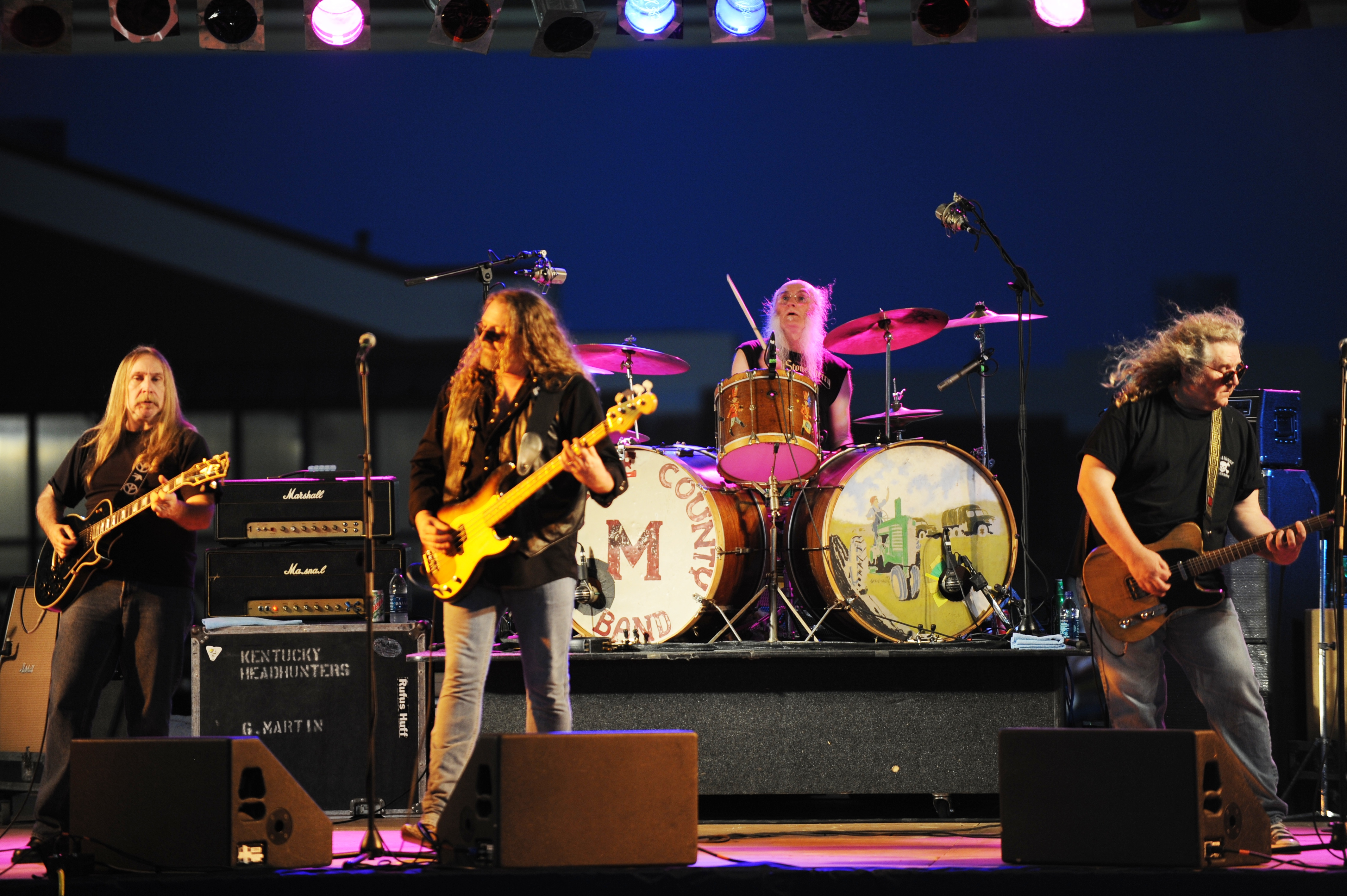 The Kentucky Headhunters perform at Langley Air Force Base, Va., during AirPower Over Hampton Roads April 24, 2009.